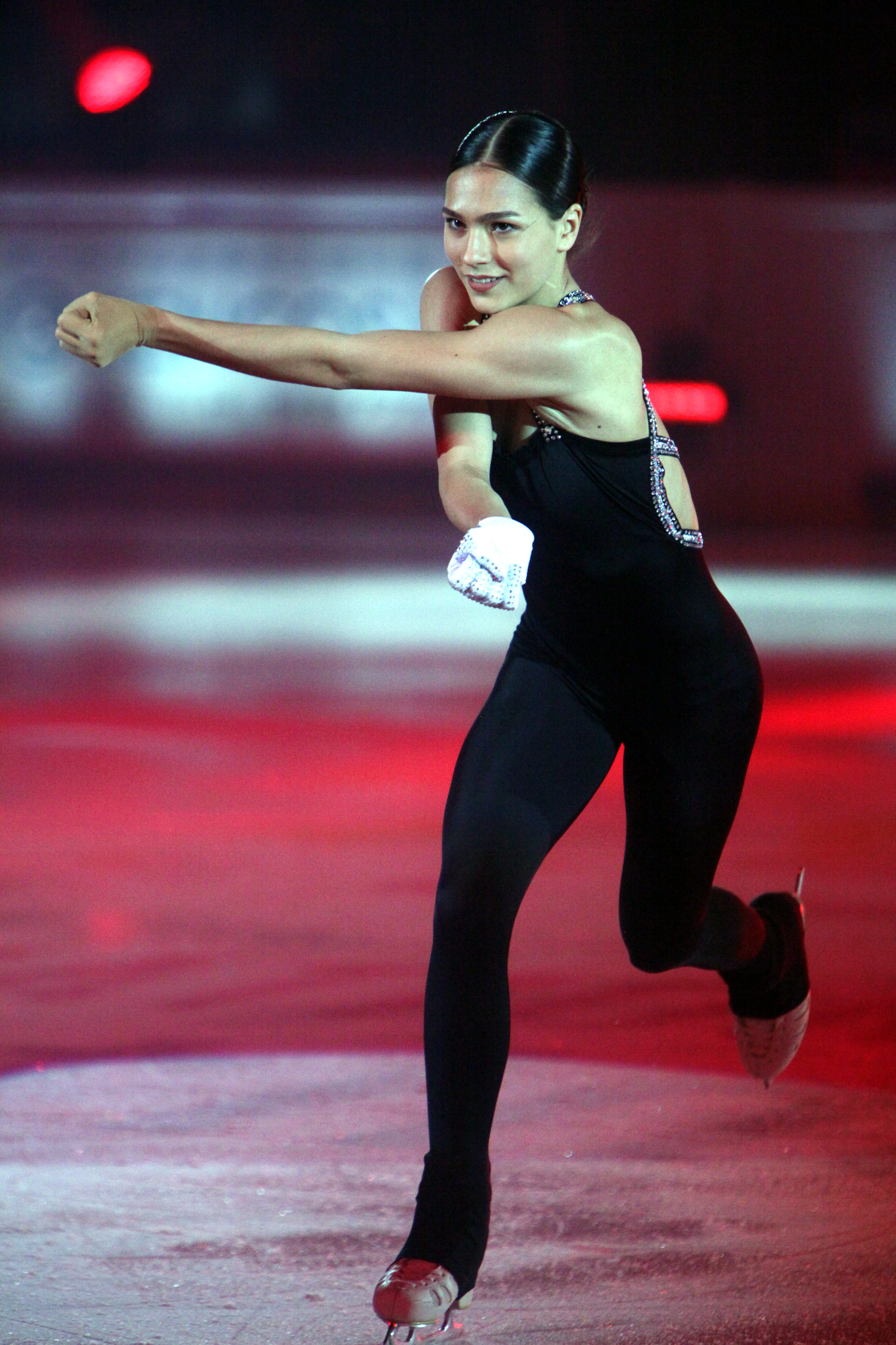 Stanislava Konstantinova during the gala at the Internationaux de France de Patinage 2018.